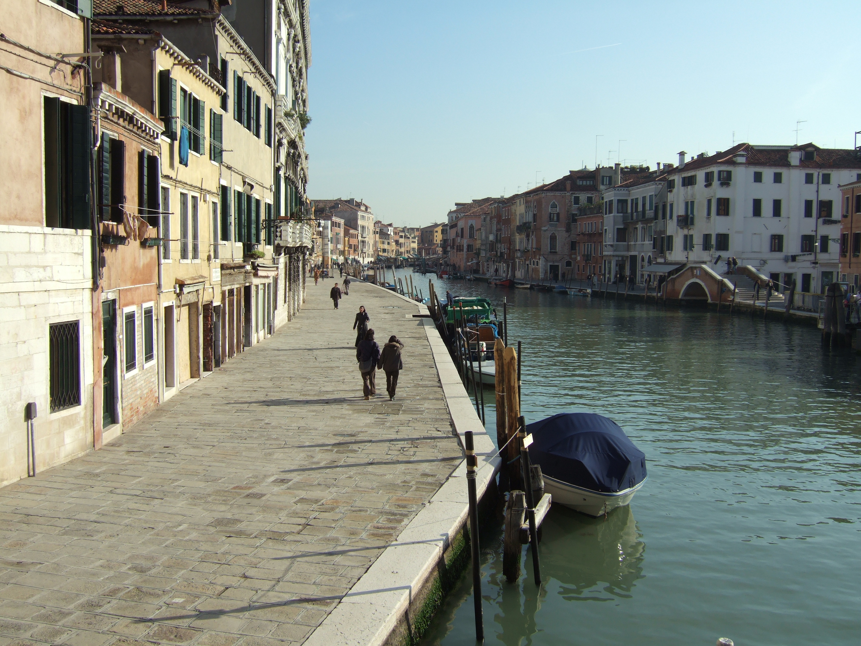 CANALE DI CANAREGIO, Ponte de la Crea (right), south-east view from Ponte dei Tre Archi (Venezia)